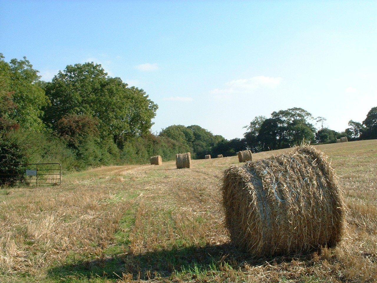 Bales of straw in a field near Midleton, Co Cork, Ireland